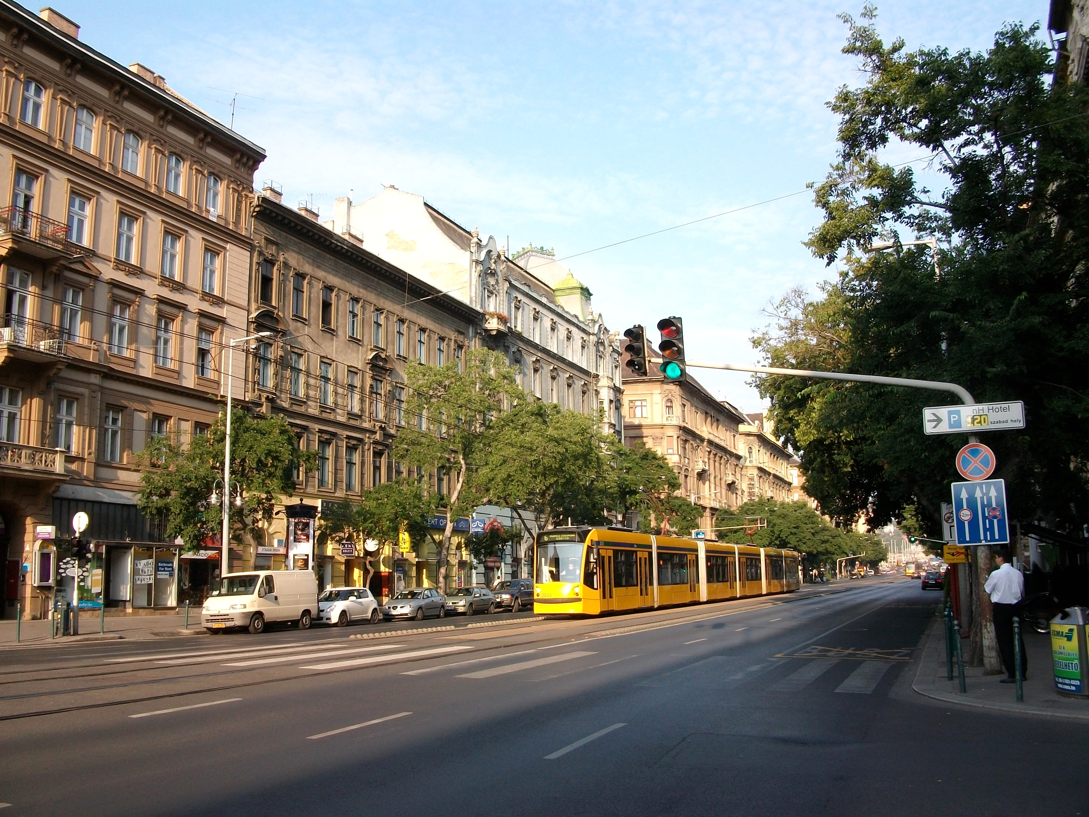 Szent István Boulevard (part of Grand Boulevard), Budapest, Hungary